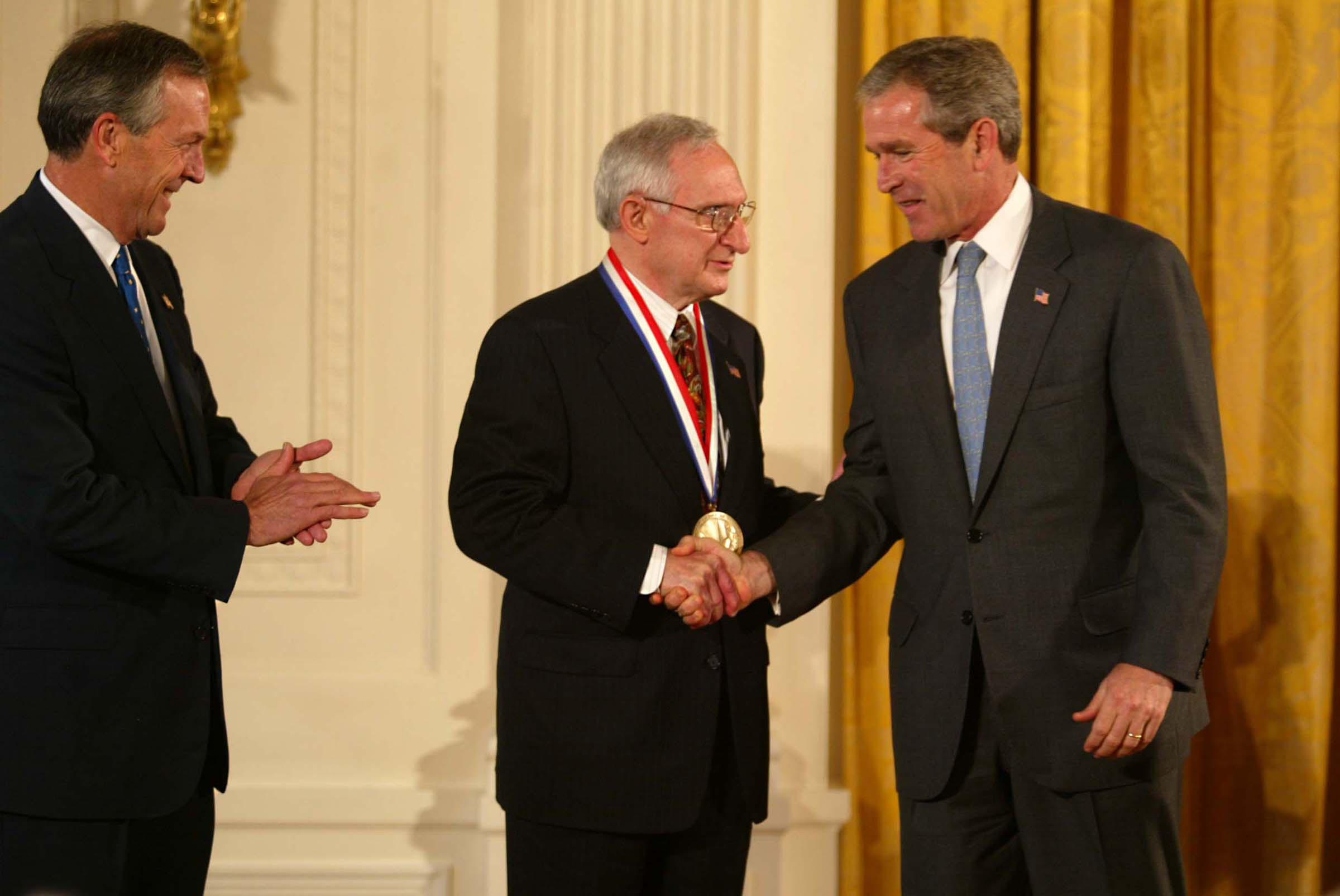 President George W. Bush awards the National Medal of Technology to Sidney Pestka in the East Room of the White House. Secretary of Commerce Donald Evans looks on.